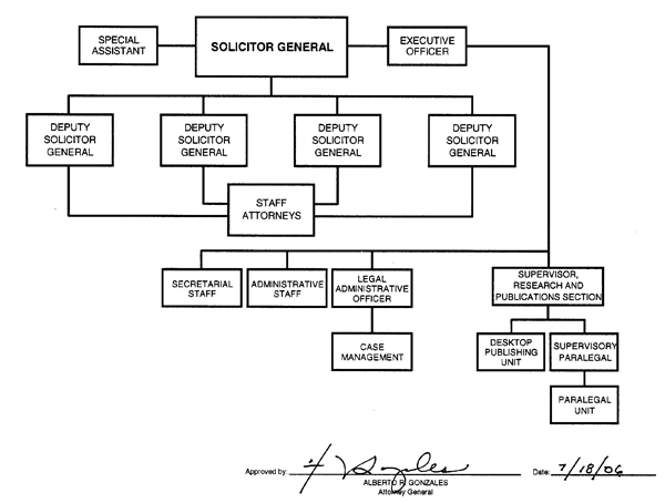 Chart showing the structure of the office of the United States Solicitor General